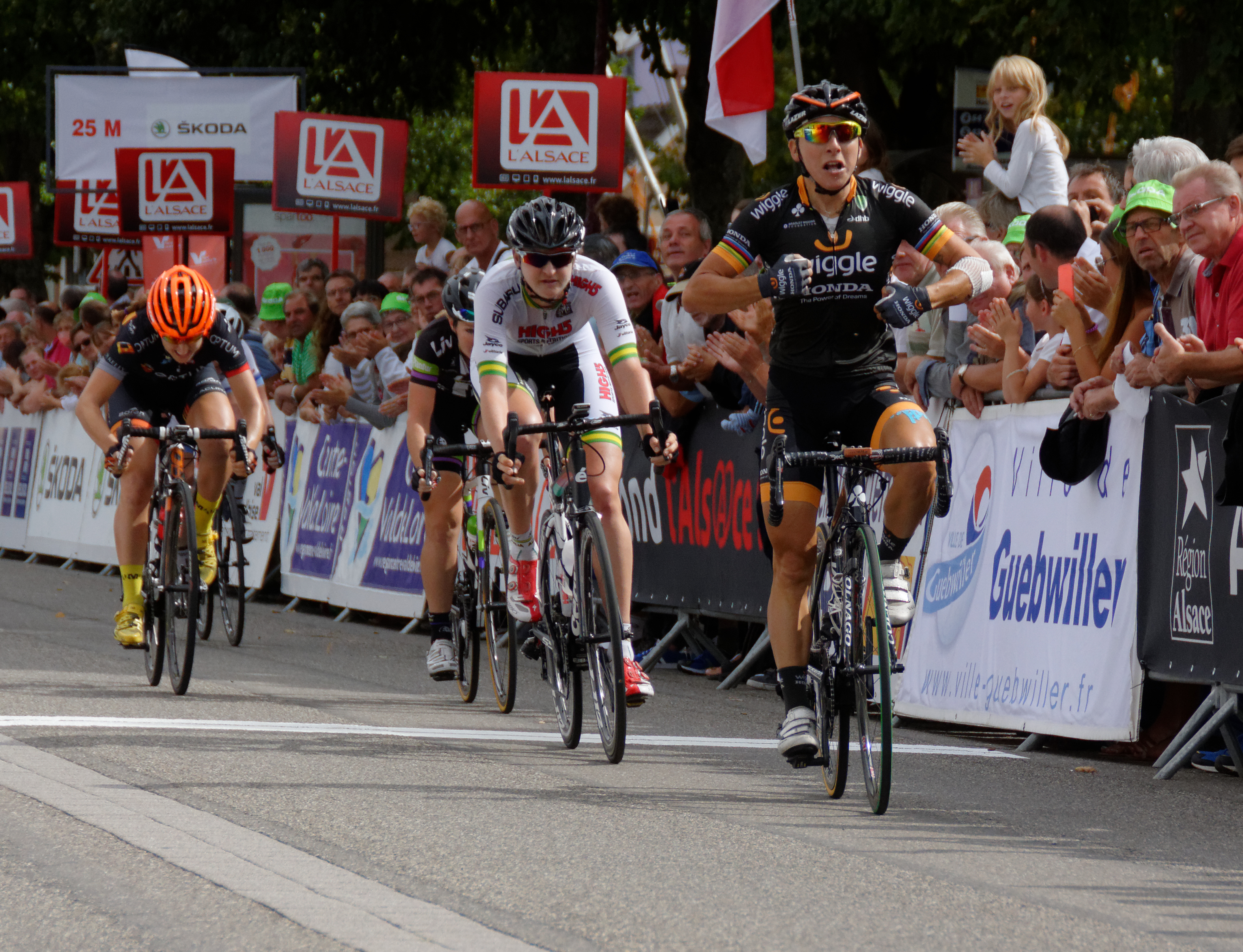 Personality rights warningAlthough this work is freely licensed or in the public domain, the person(s) shown may have rights that legally restrict certain re-uses unless those depicted consent to such uses. In these cases, a model release or other evidence of consent could protect you from infringement claims.